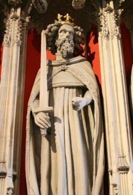 Photograph of King Edward I's statue on the Kings' Screen in York Minster. (Cropped and widened using photo editor at Shadows decreased and contrast further increased using Preview MacOS)